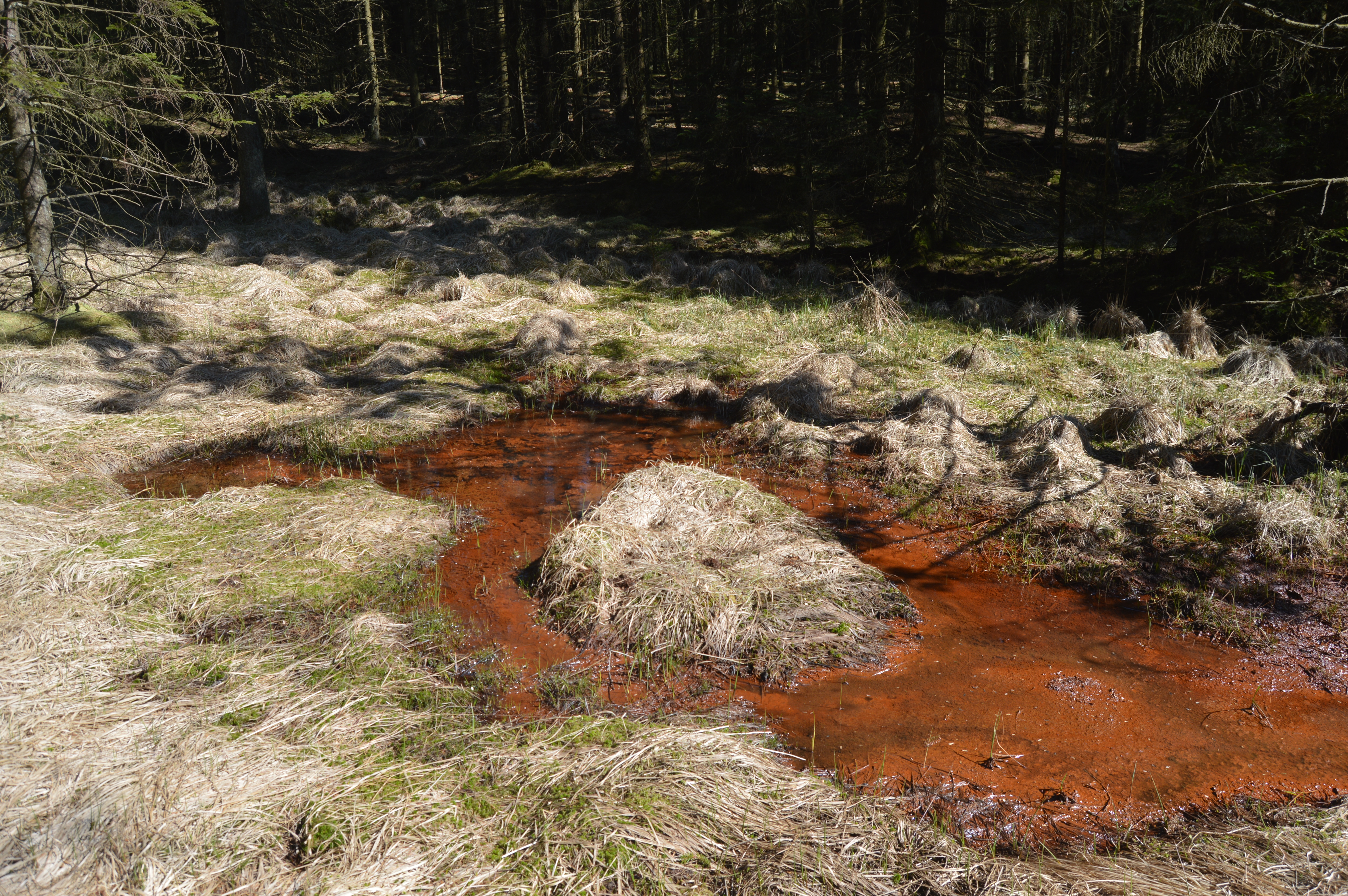 The Trou des Massotais ("Leprechaun Hole"), on the PLteau des Tailles in Belgium, an old gold mine digged by Celts; water full of iron on the "Noir Ru" river (aka Martin Moulin)